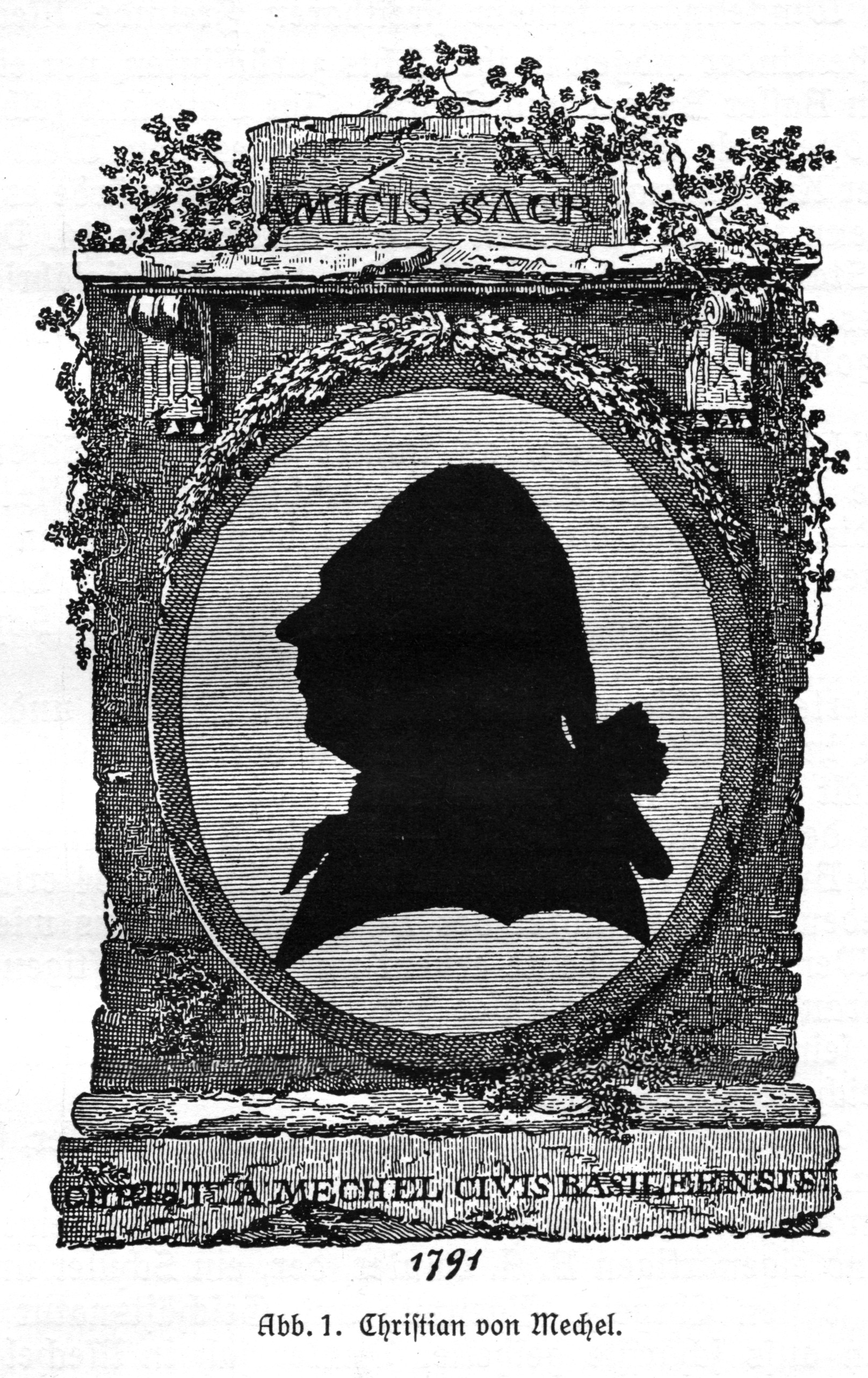 Portrait of Swiss engraver Christian von Mechel (1737-1815)